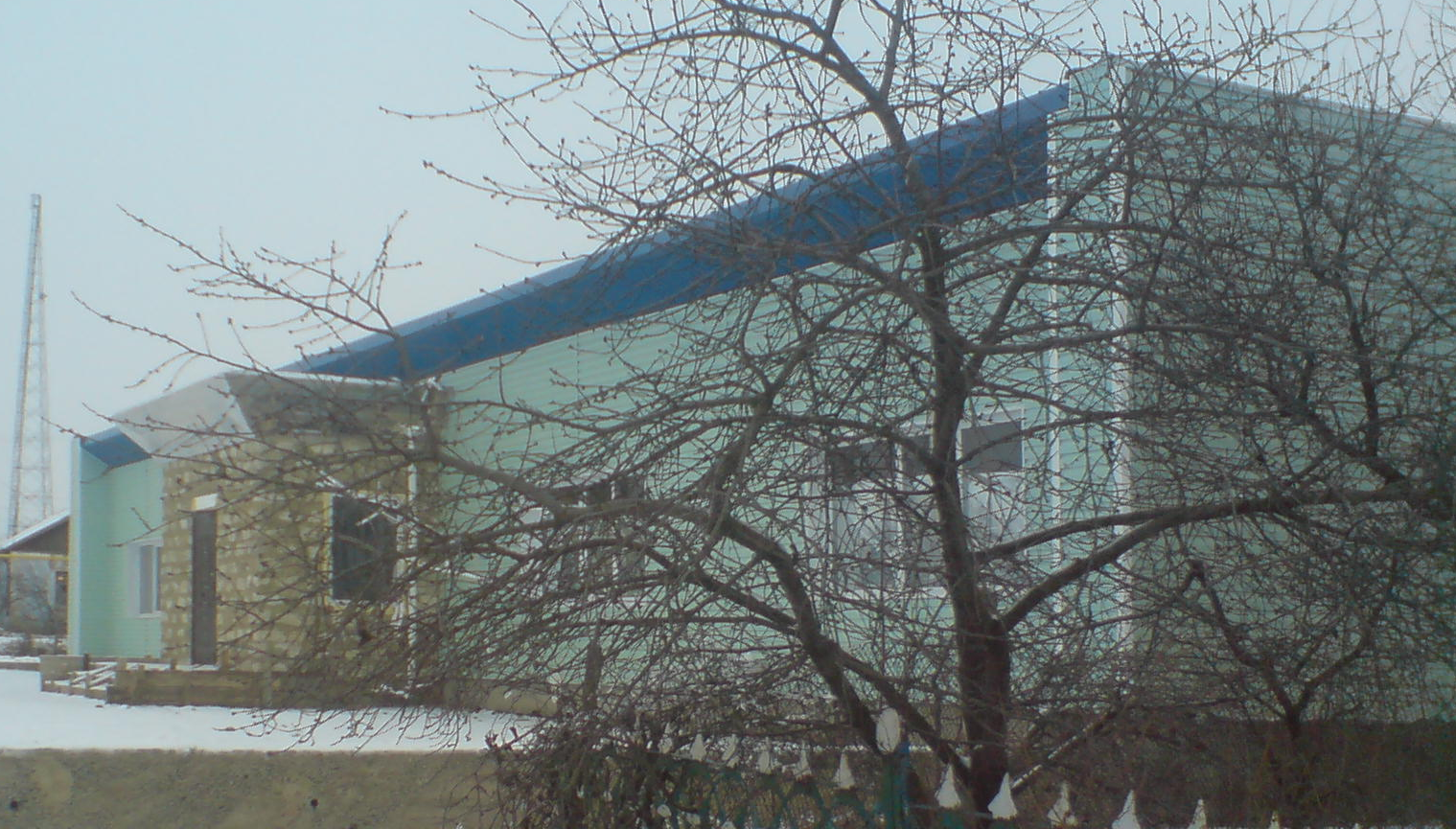 Near pond, Zatyshshia